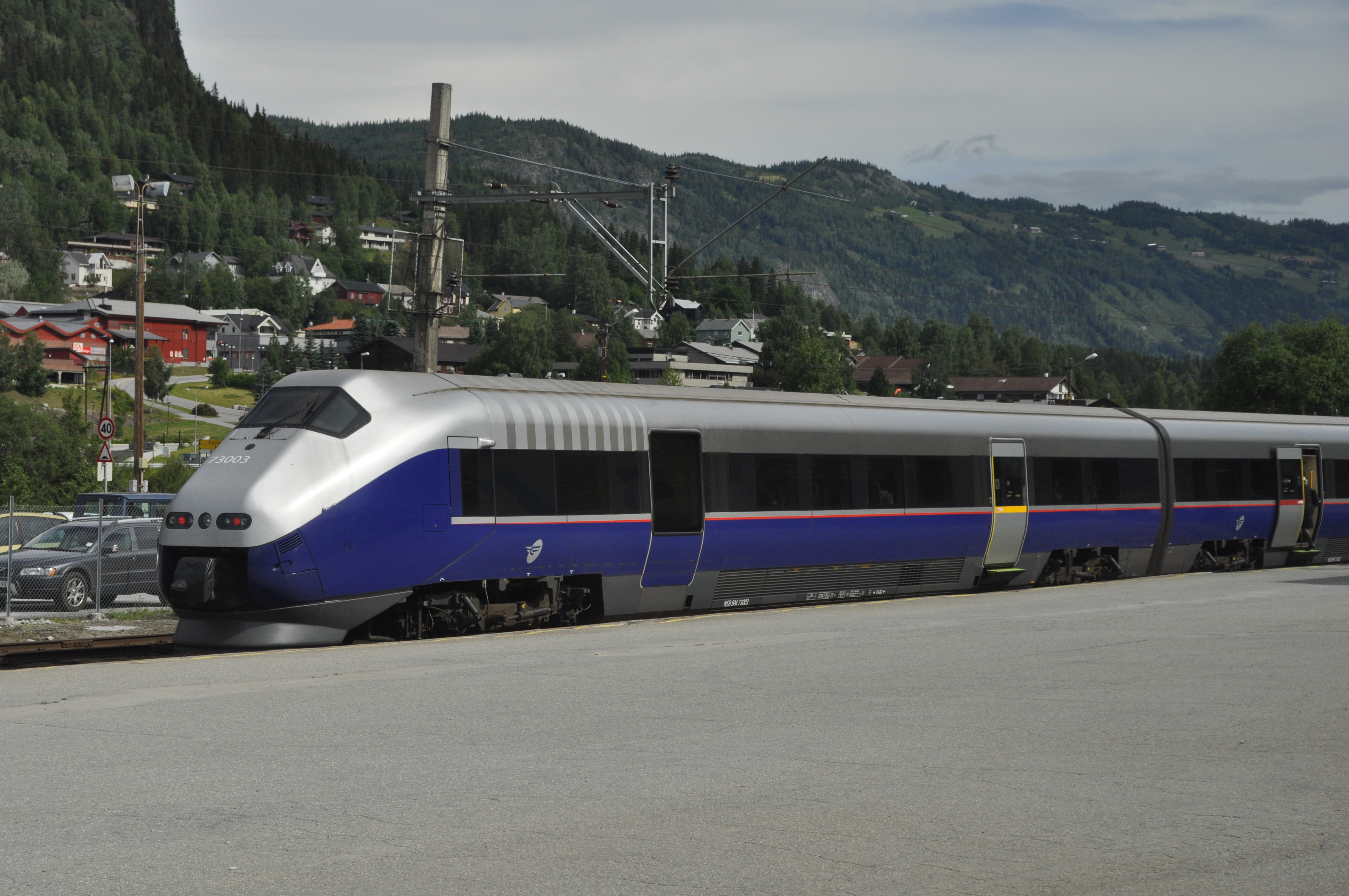 Bergensbanan Train